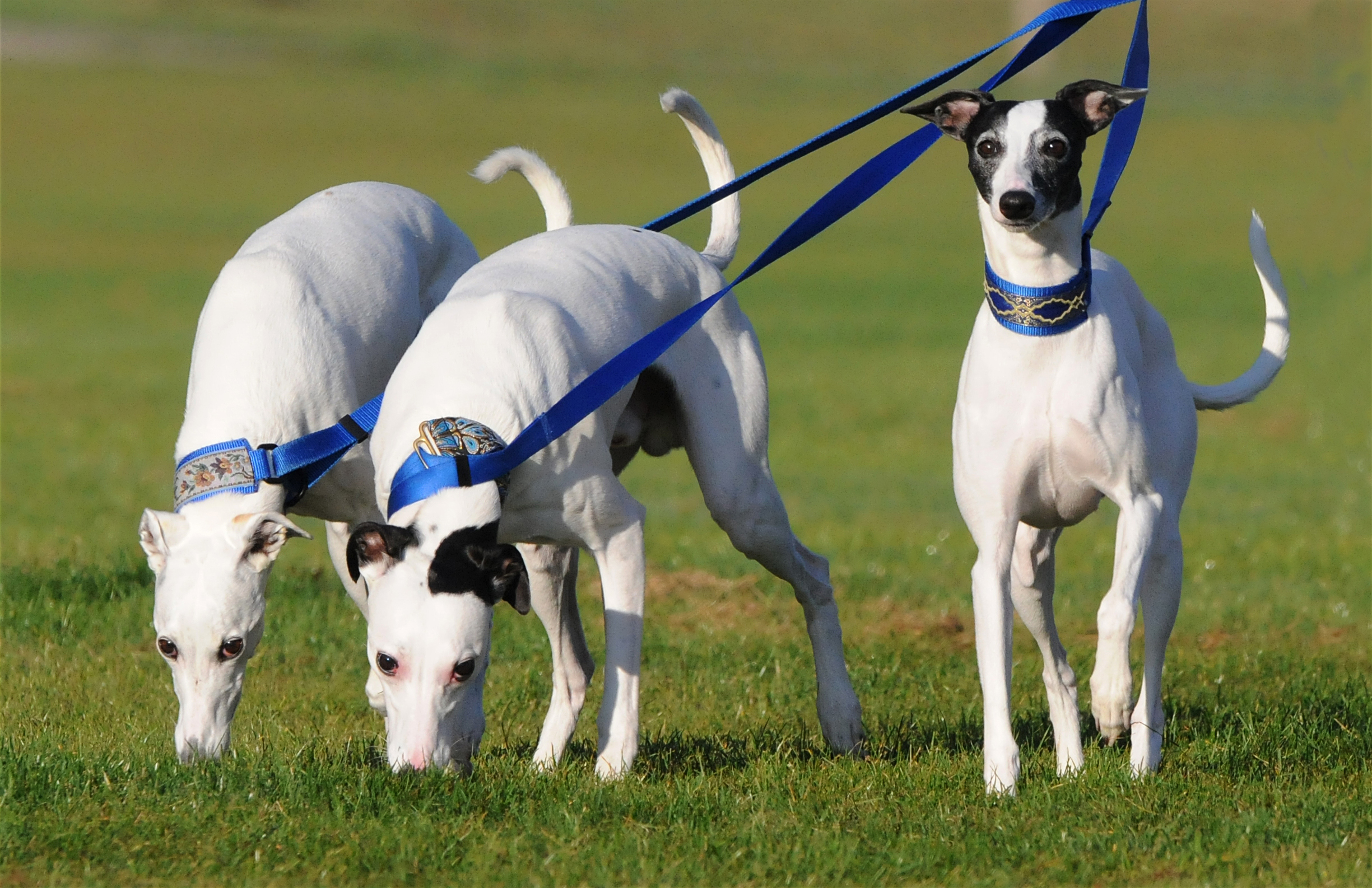 "Fireworks Whippets" at NAWRA 2008 Nationals and WWD. Roy, WA, USA.